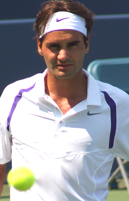 Roger in his quarterfinal match at the 2007 Cincinnati Masters.